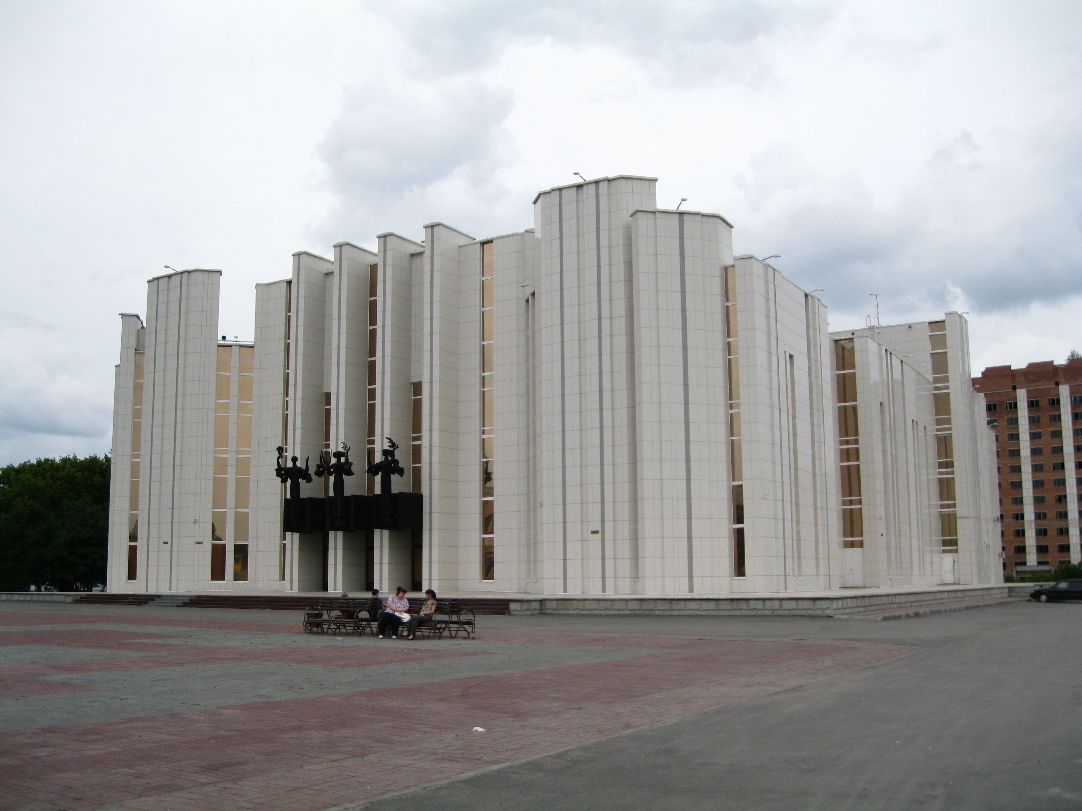 Oblast philarmony in Kurgan, Russia